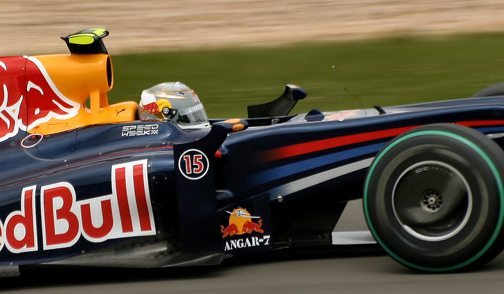 Sebastian Vettel driving for Red Bull Racing at the 2009 German Grand Prix.